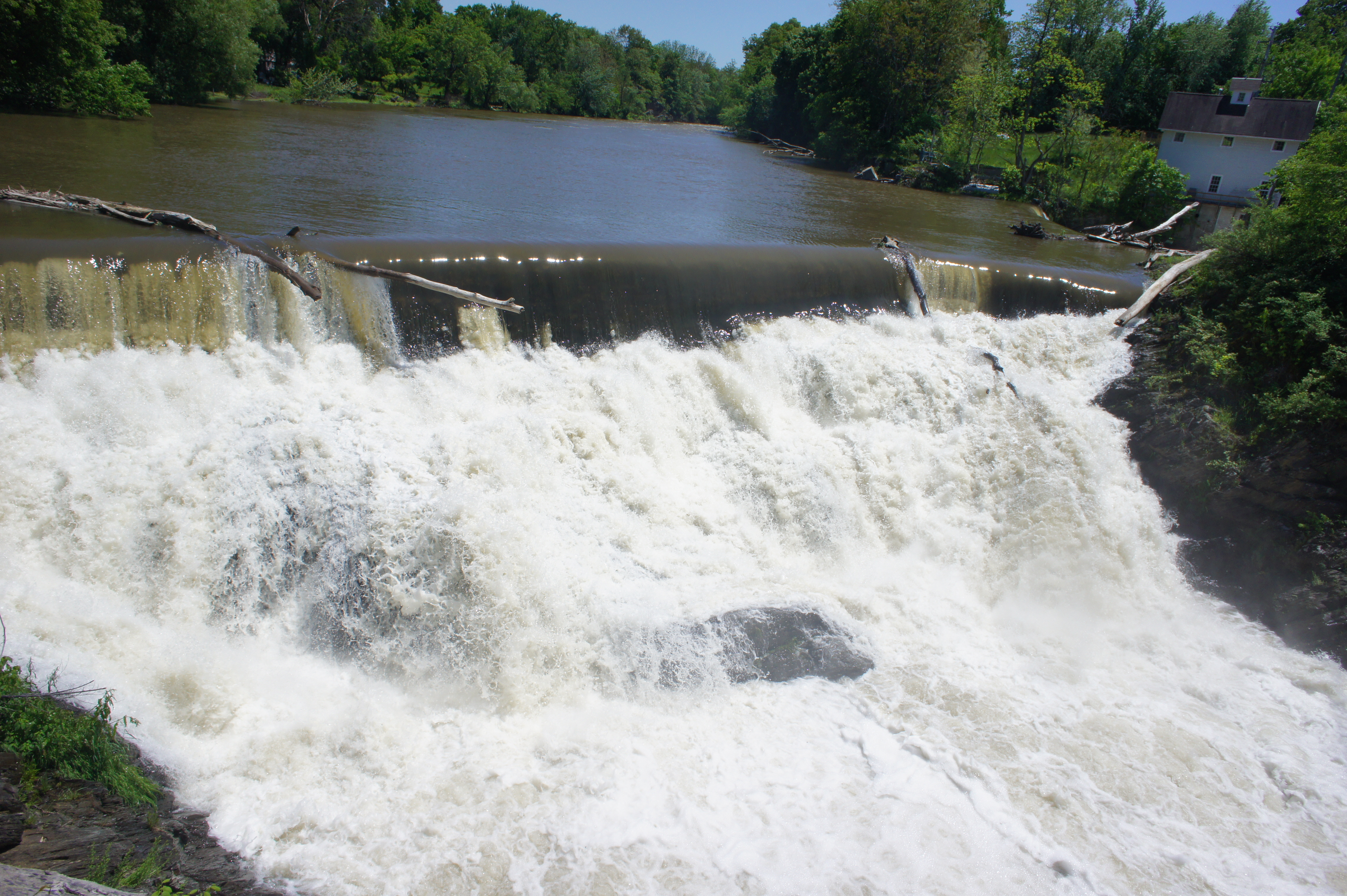 Valatie’s Beaver Kill Falls